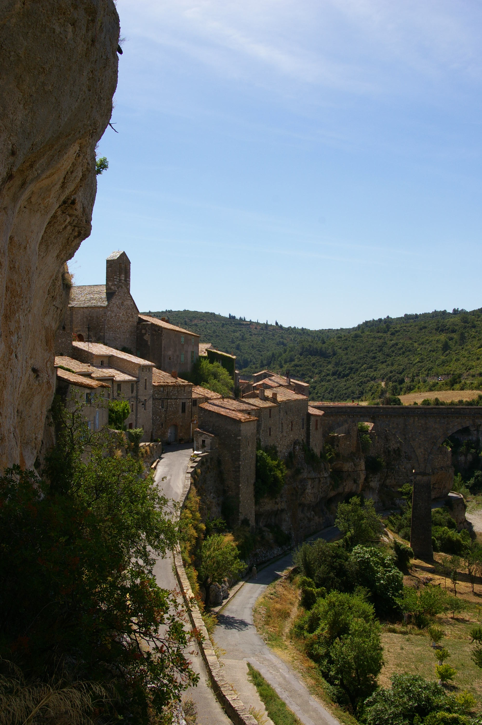 View in village of Minerve, dept. Hérault, France